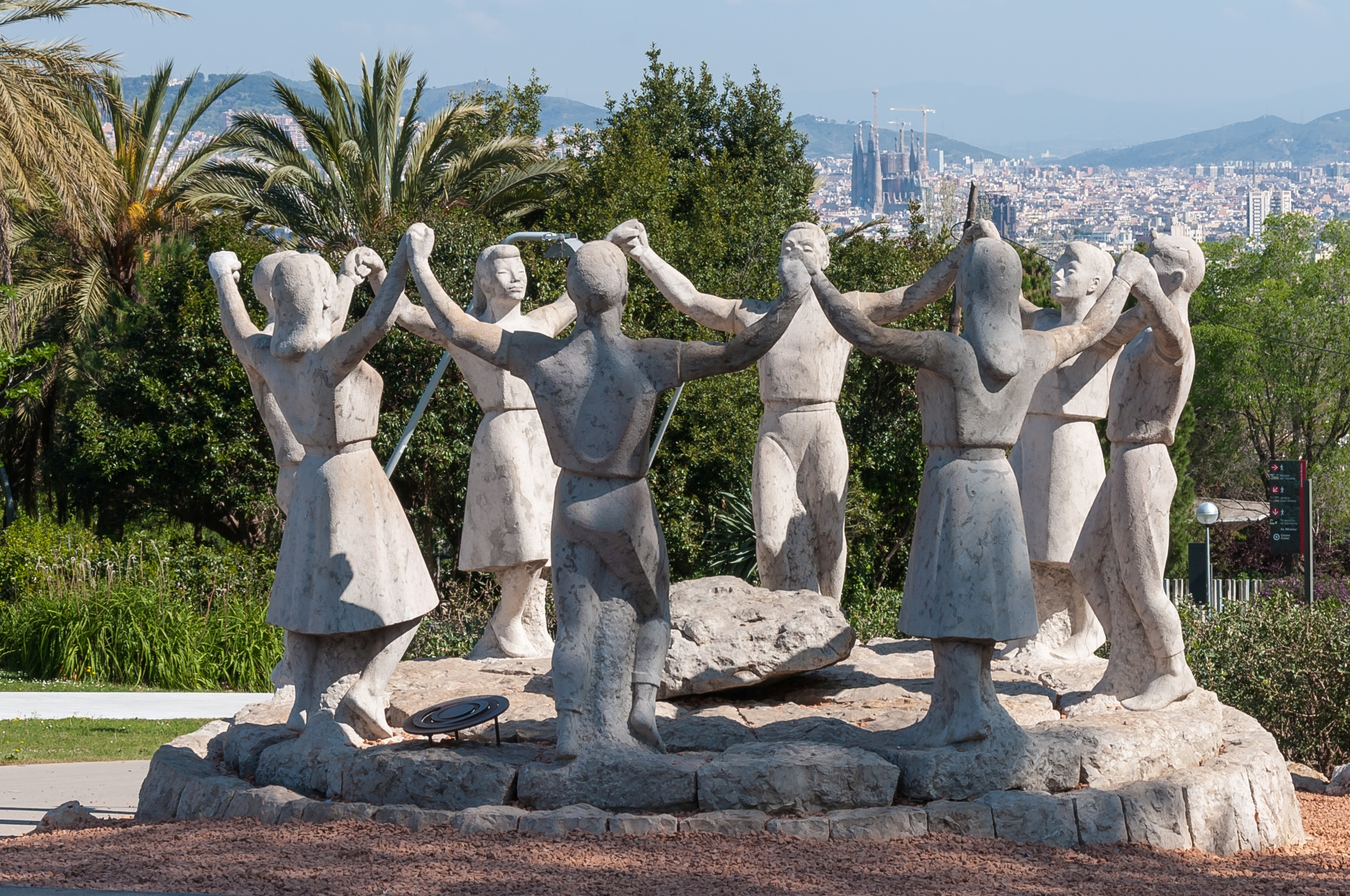 In Jardines de Joan Brossa, gardens of Joan Brossa, there is the monument for the dance Sardana. It was made in 1965 by Josep Cañas i Cañas. This dance is a national symbol of the catalan region.